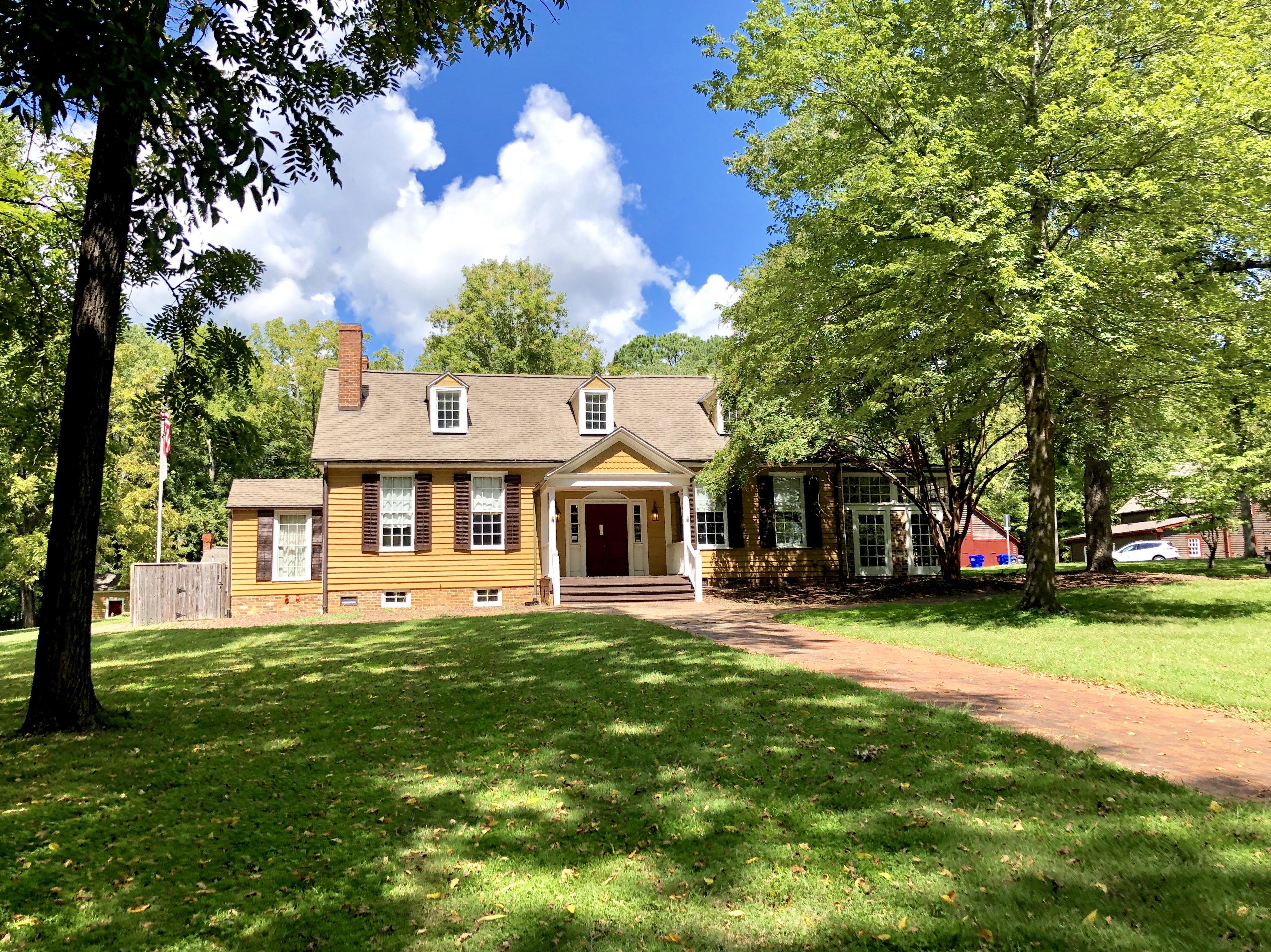 This is the Ruffin-Roulhac House, located at Churton Street and Orange Street in Hillsborough, North Carolina. Constructed circa 1820, the house is now in use as the municipal building of the town of Hillsborough. The building was listed on the National Register of Historic Places in 1971.